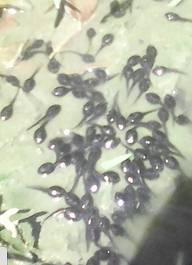 Toad tadpoles outside my house, Puerto Cortés, Honduras